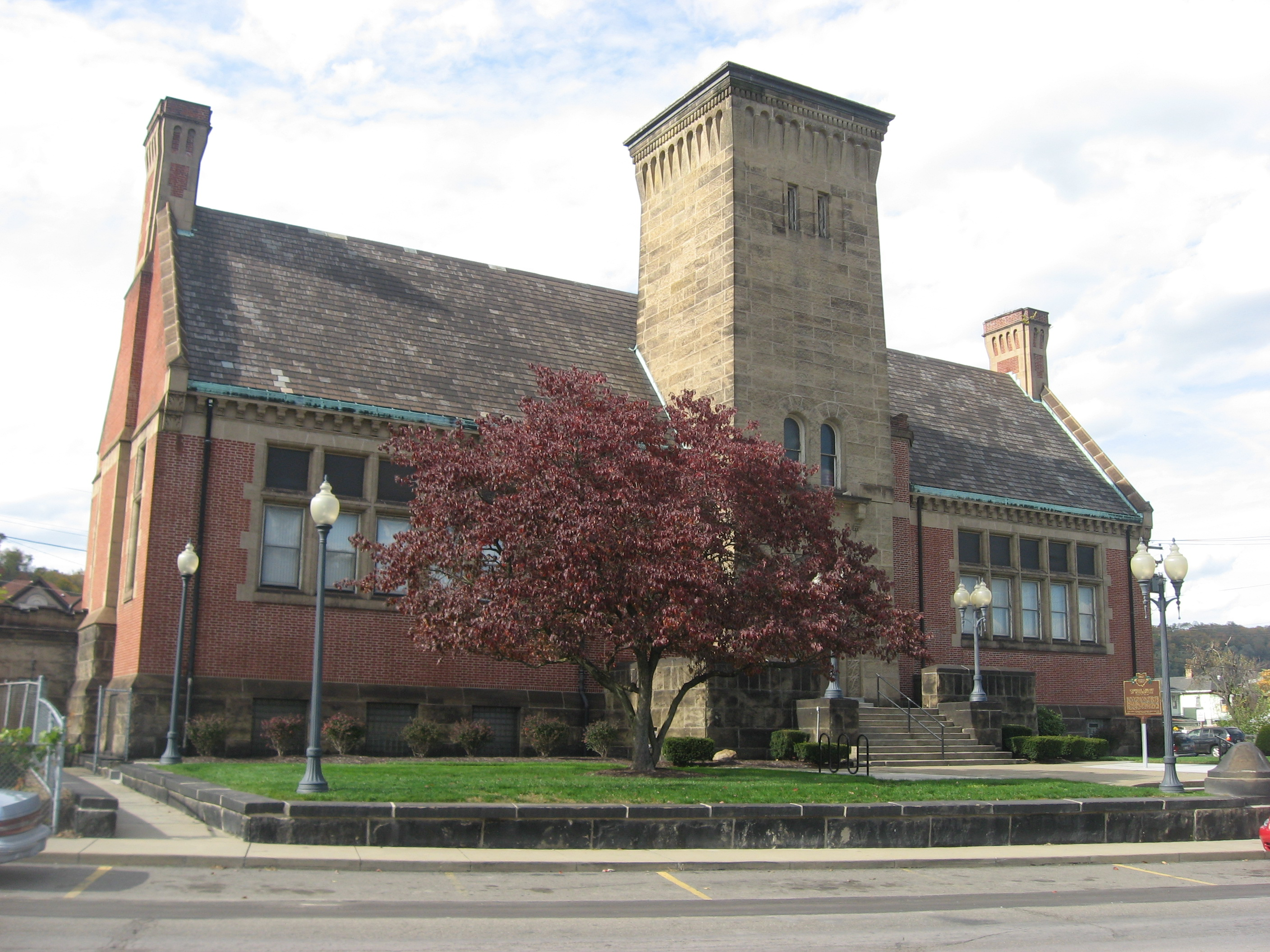 Southern side and front of the Carnegie Library of Steubenville, located at 407 S. Fourth Street in Steubenville, Ohio, United States. Built in 1900, it is listed on the National Register of Historic Places.